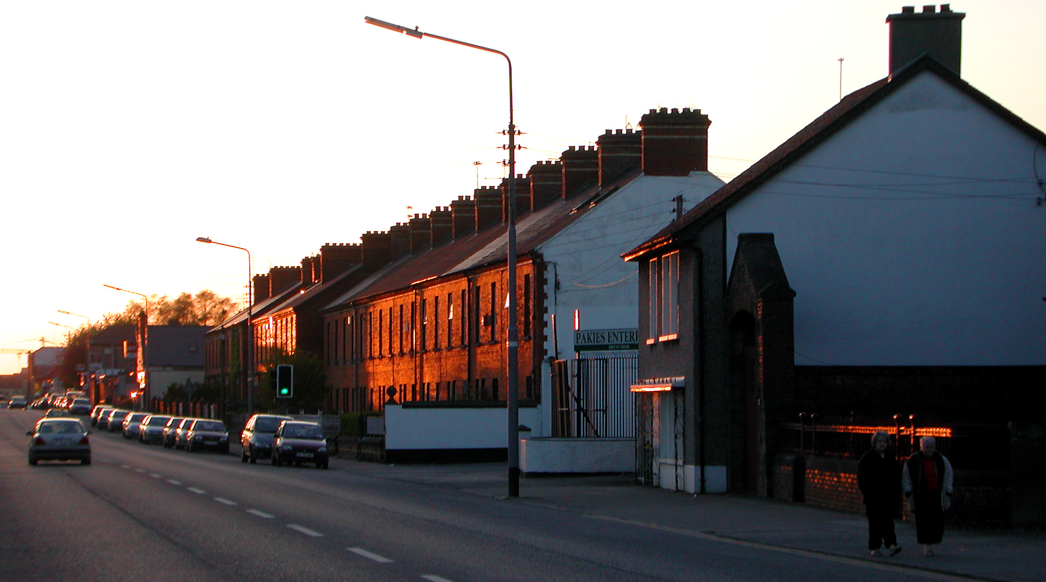 Rae tithe on 19u aois i Sraid Mhlgrave, Luimneach. Togtha sa bhlian 2001 ag Sean an Scuab.